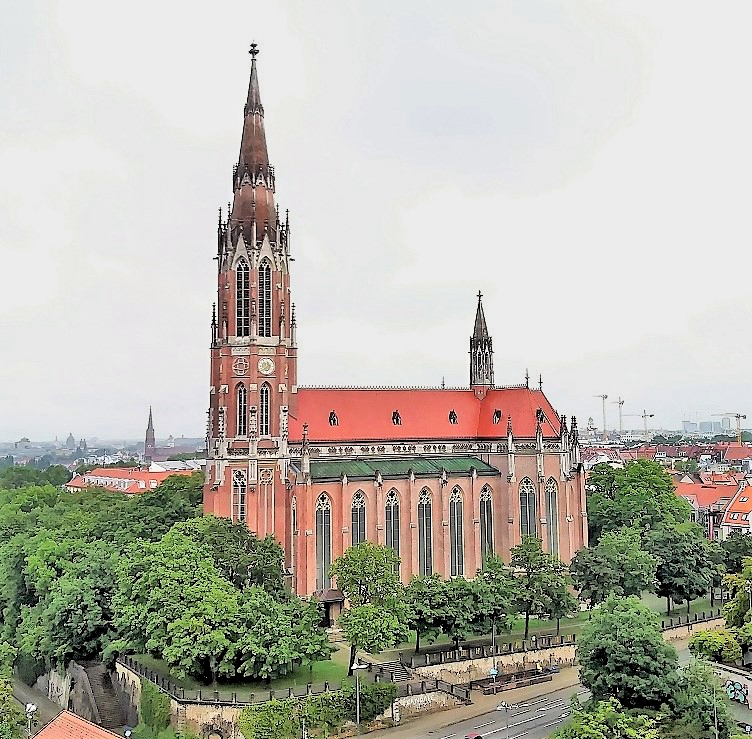 Heilig-Kreuz-Kirche (Giesing)